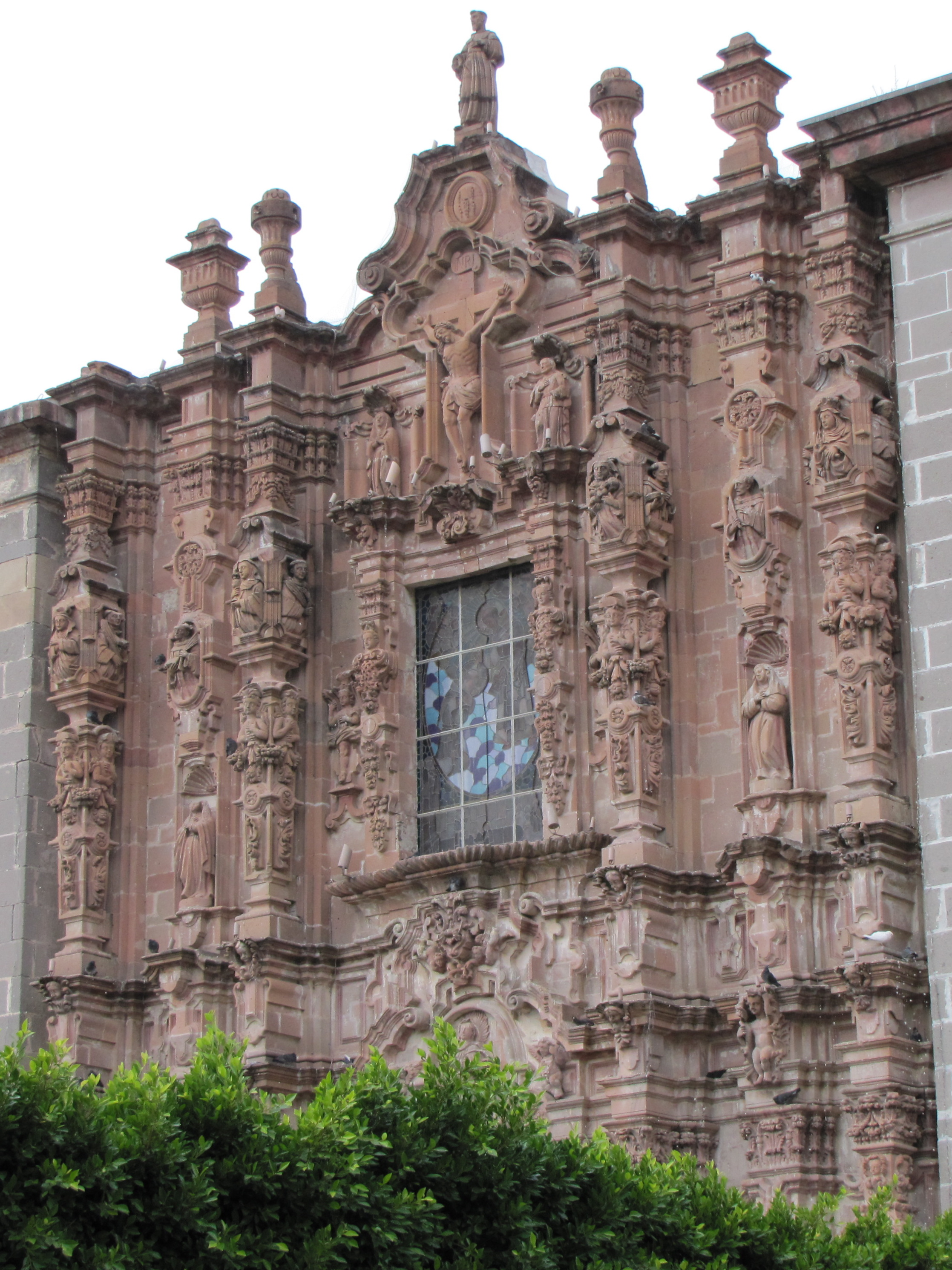 A church façade in San Miguel de Allende, Guanajuato, Mexico